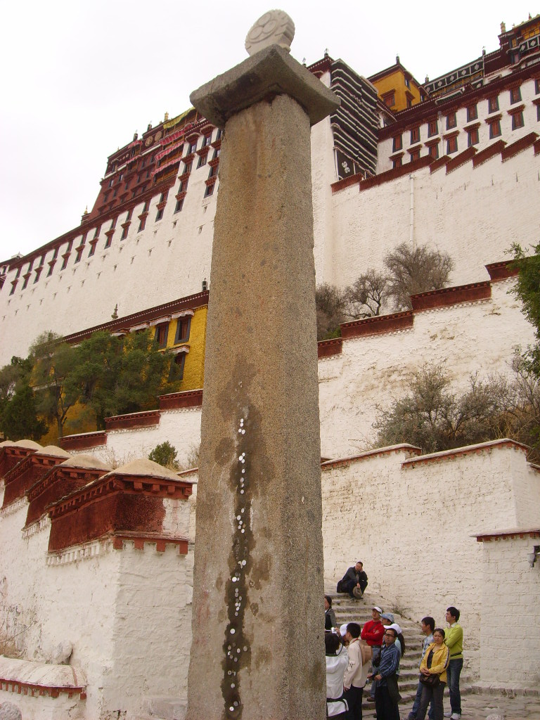 The Inner Stele of Potala Palace (front side) which was erected in 1693, stands outside the Potala Palace in Lhasa, China.